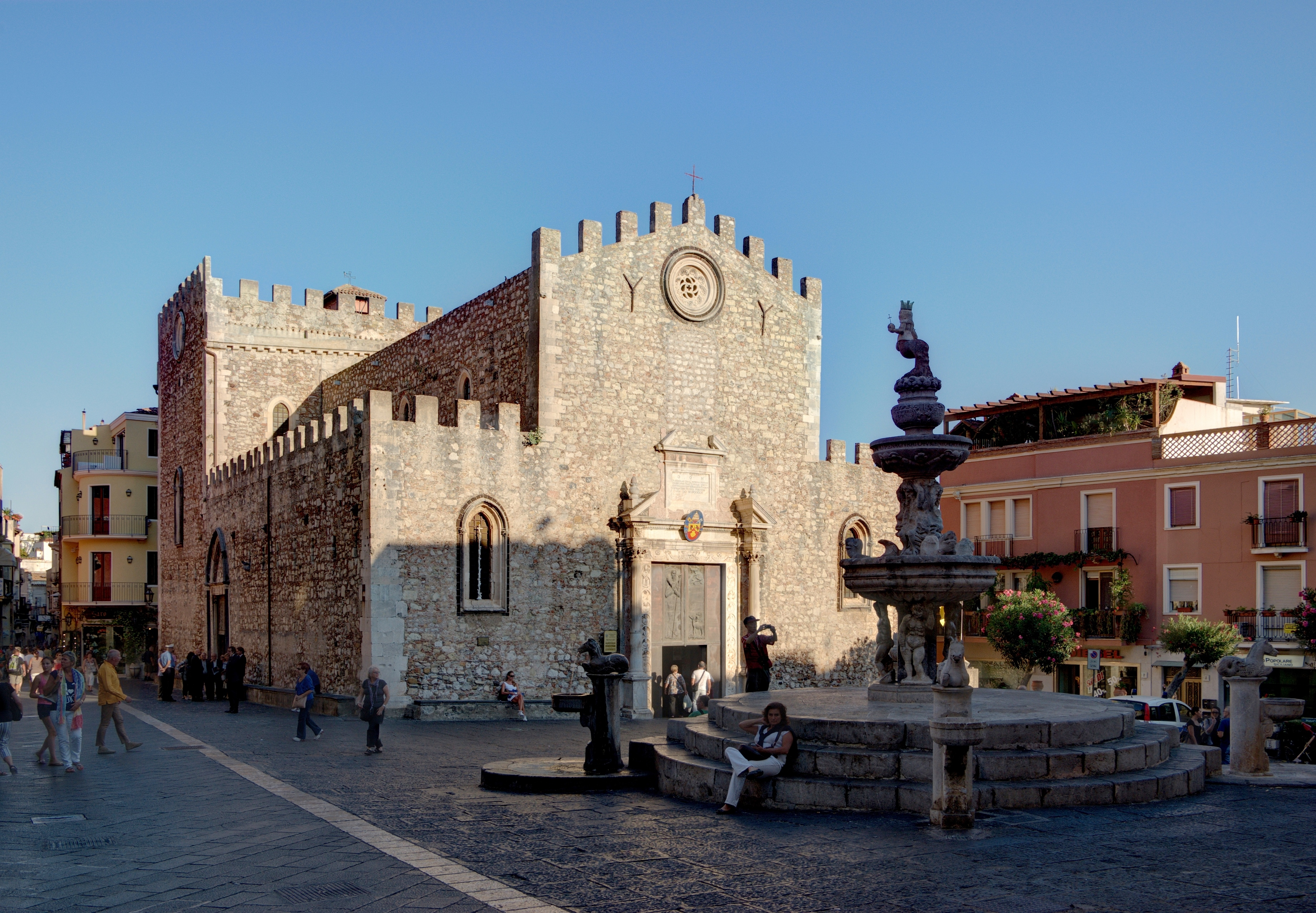 Italy, Sicily, Taormina, Dom S. Nicolò